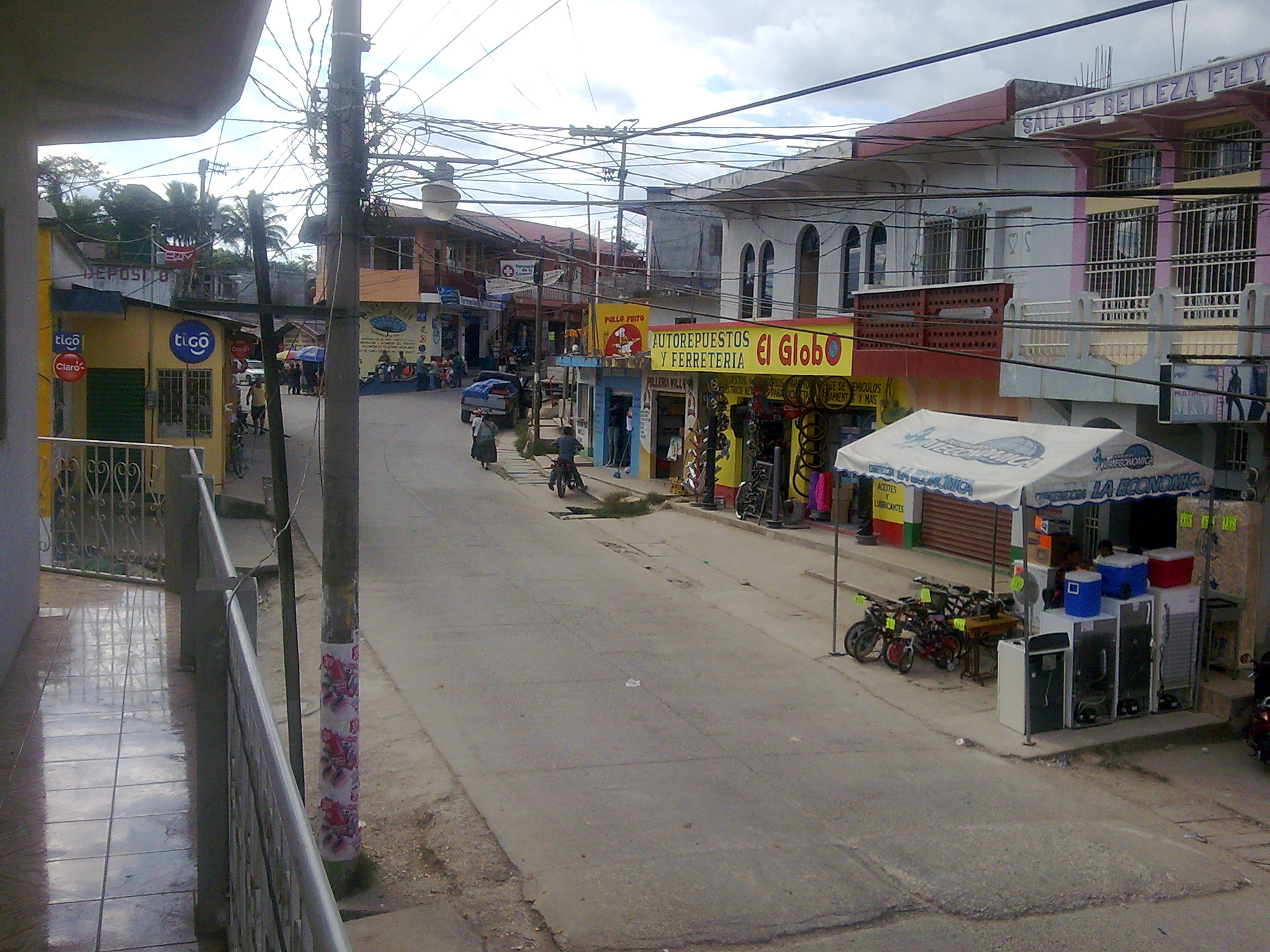 Main street in the center of San Luis, department of El Petén, Guatemala